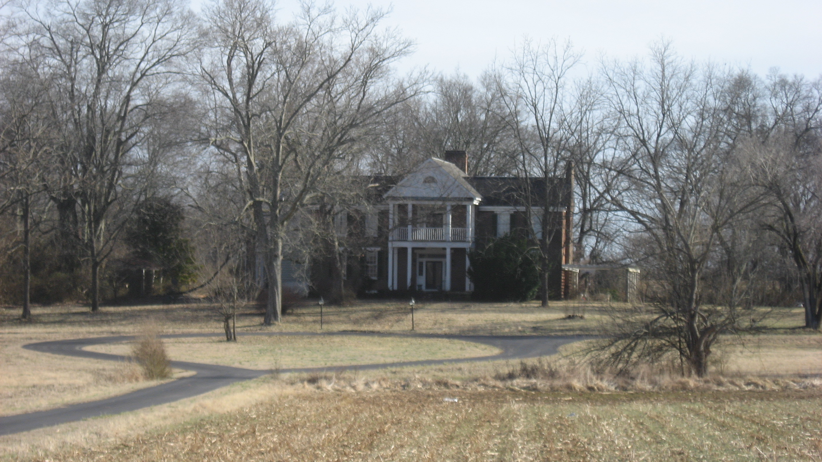 Streetside view of Edwards Hall, located on the southern side of Goebel Avenue in Elkton, Kentucky, United States. Its first owner was politician Benjamin Edwards, whose grandson Benjamin Helm Bristow was born in the house. Built in 1821, it is listed on the National Register of Historic Places.